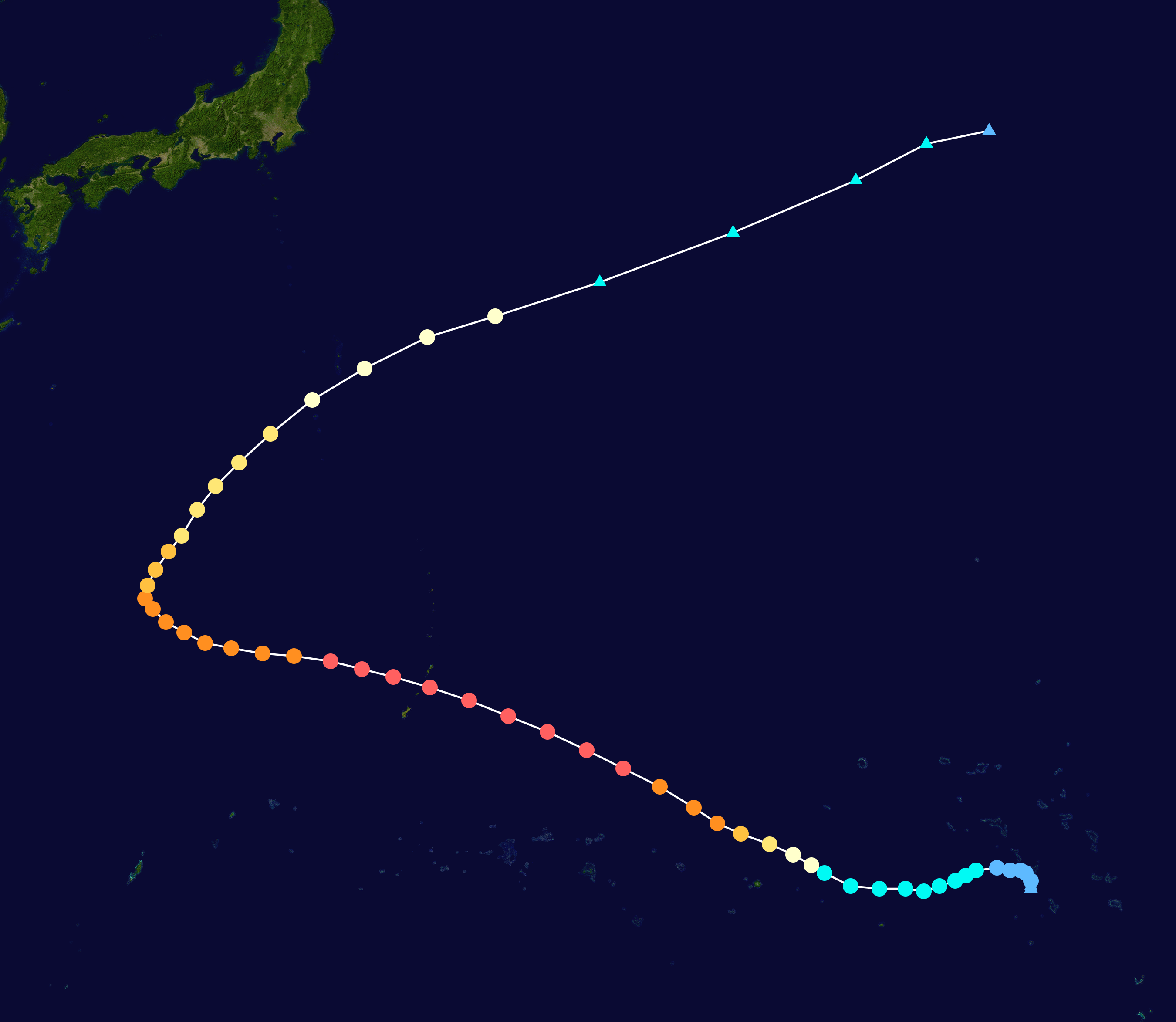 Typhoon Keith 1997 track. Uses the color scheme from the Saffir-Simpson Hurricane Scale.